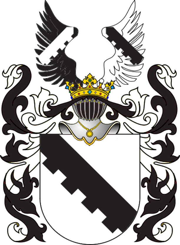 Grothus coat of arms image